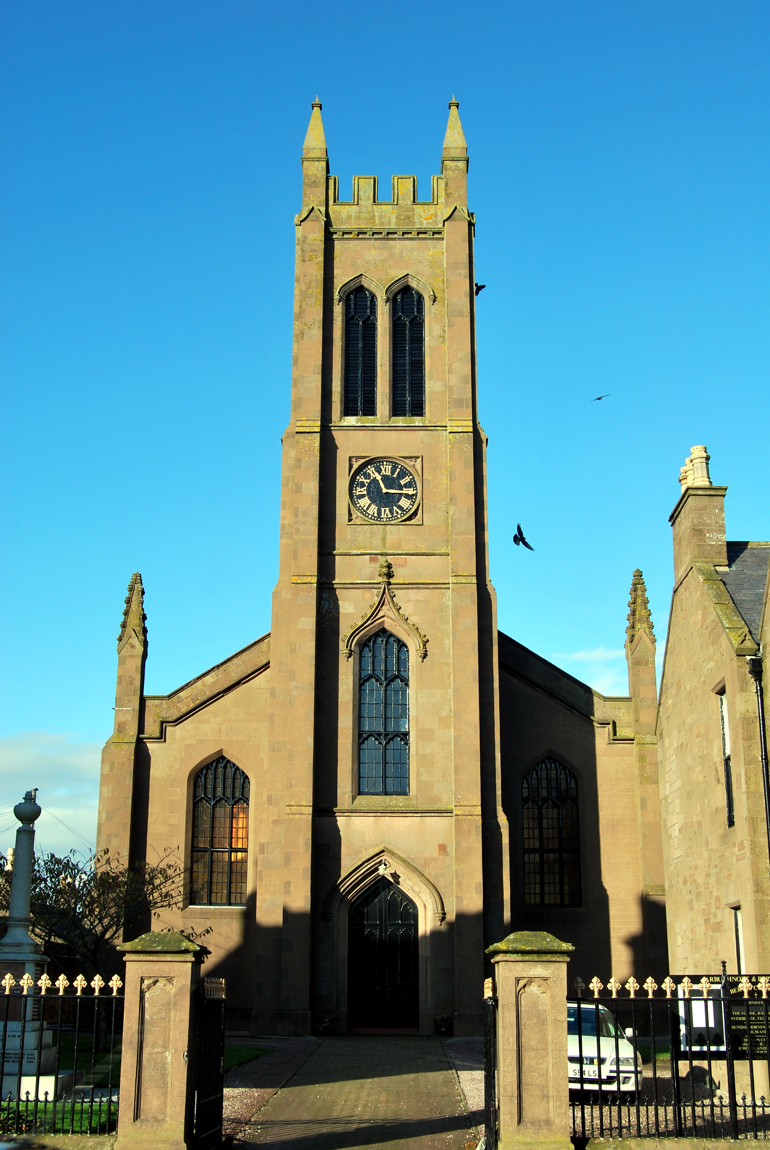 Inverbervie Church